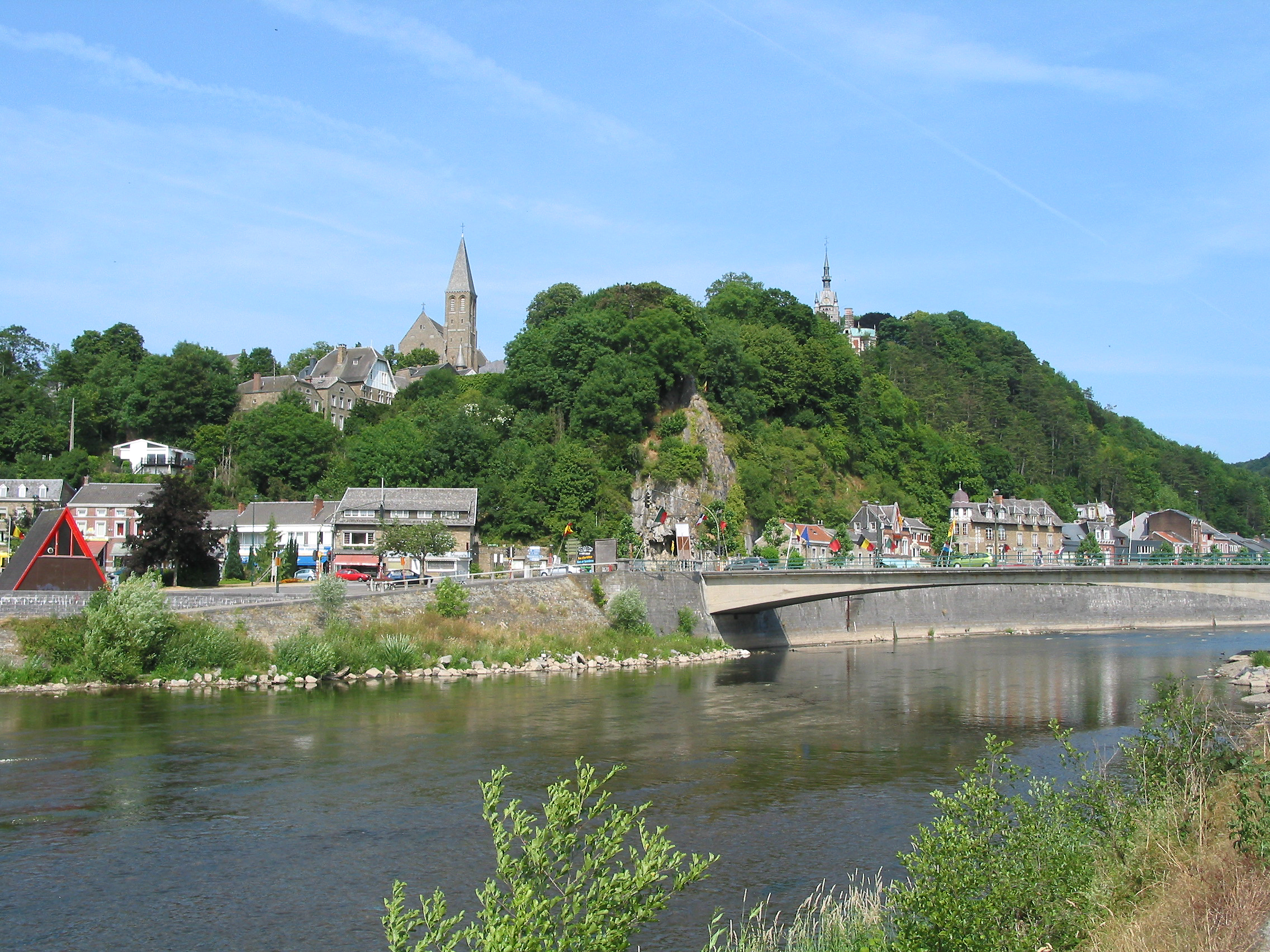 Esneux, the city and the bridge on the Ourthe river. Walon: Èsneu, li vile èt l’pont su l’Ôute.